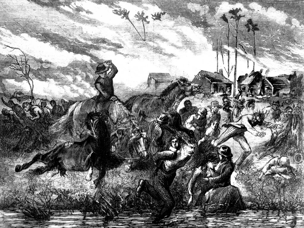 The Peshtigo Fire showing people seeking refuge in the Peshtigo River, 1871. taken from Harper's Weekly, 1871 Page 1037.